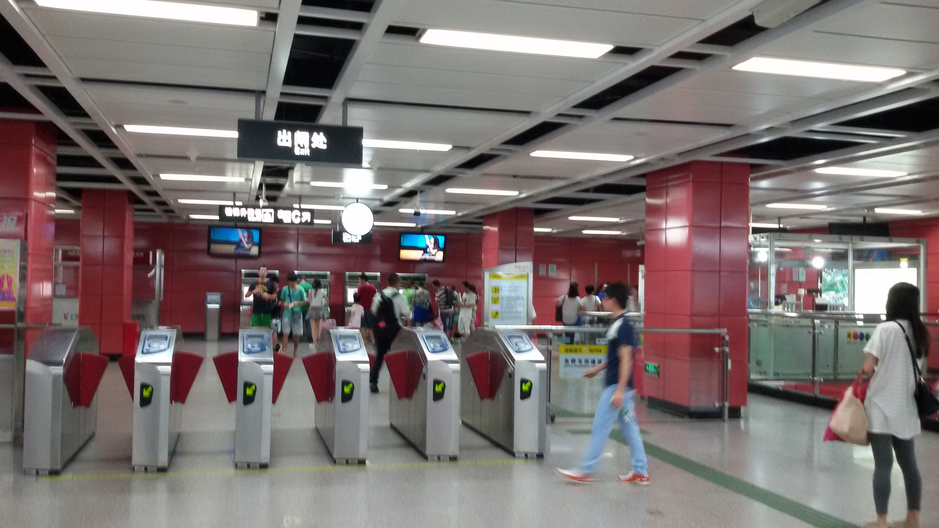 Station Concourse for Feixiang Park Station in Guangzhou Metro 粵語: 飛翔公園站嘅站廳